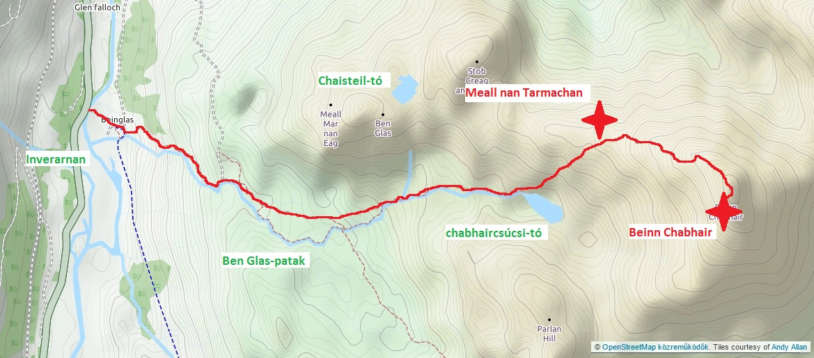 Trail leading to the summit of Beinn Chabhair.